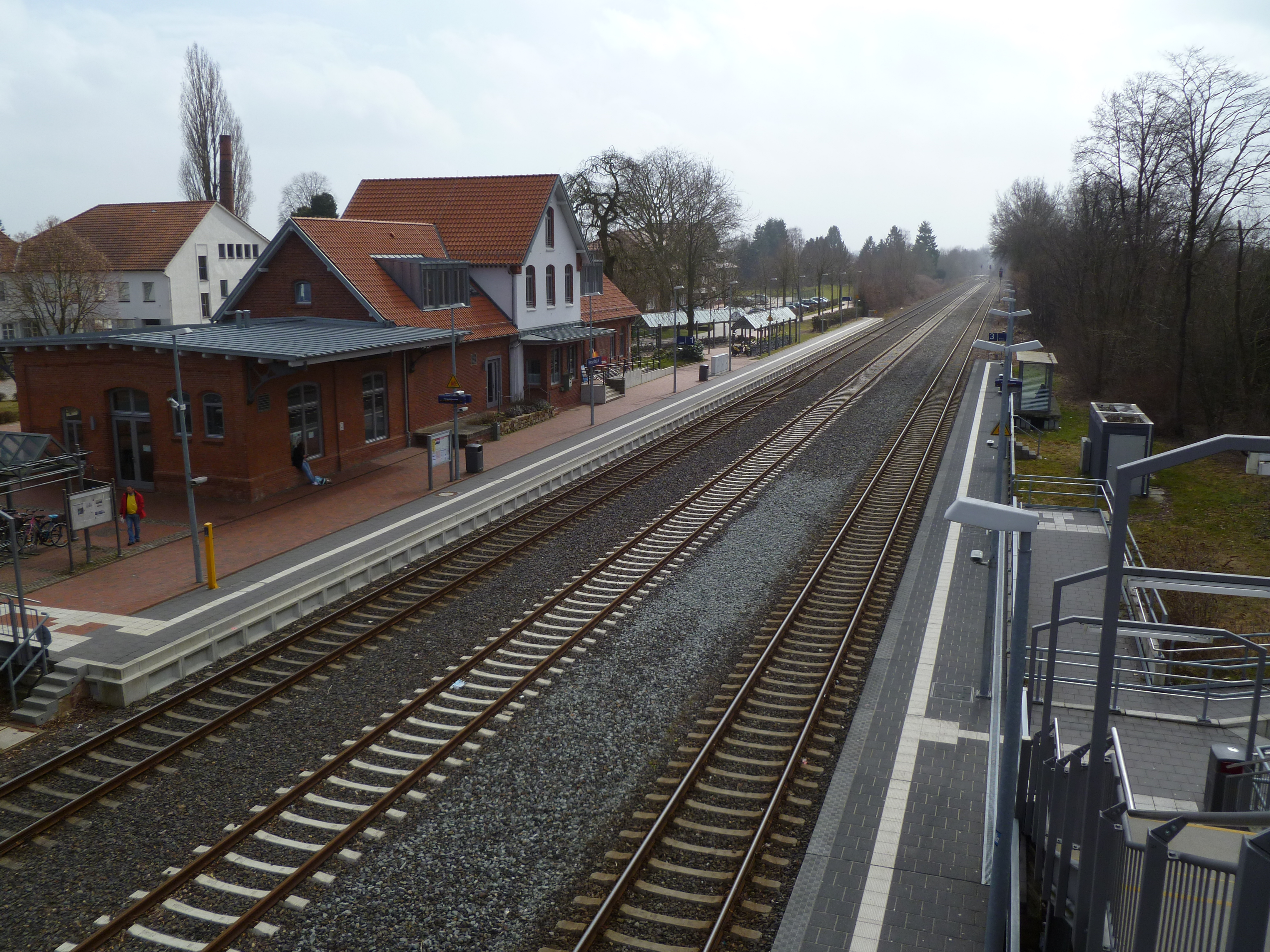 Railwaystation Bersenbrück